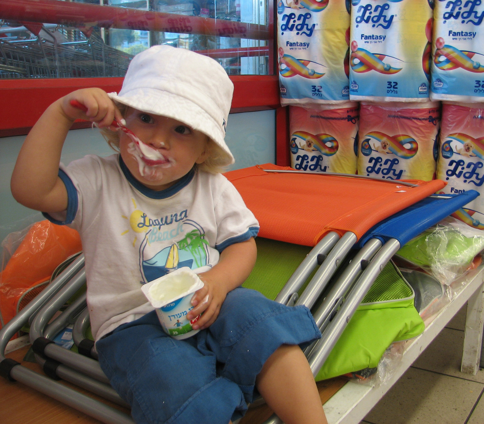 2 years old eating yoghurt in a Haifa supermarket.